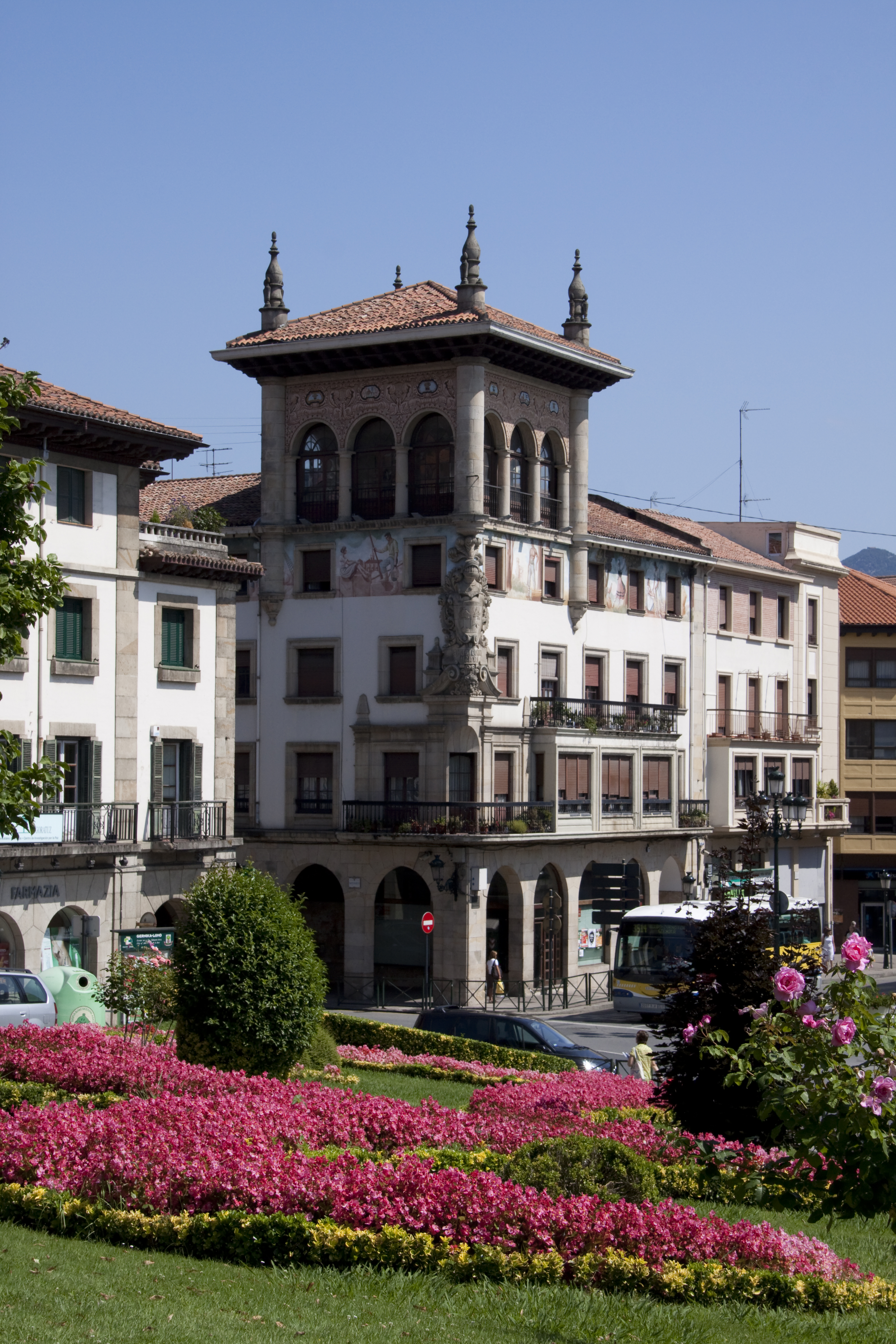 Guernica town centre